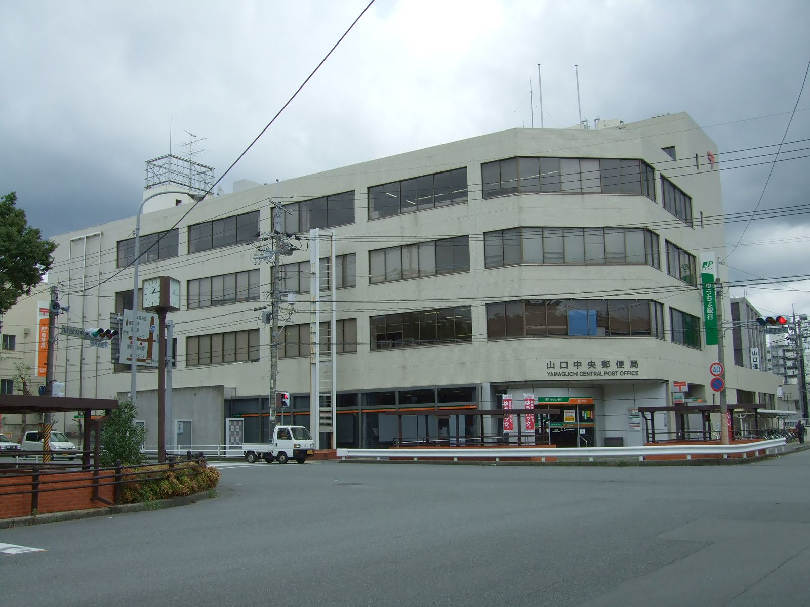 Yamaguchi Central Post Office